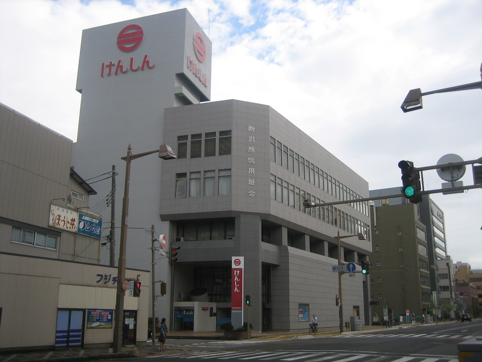 Niigata-ken credit union